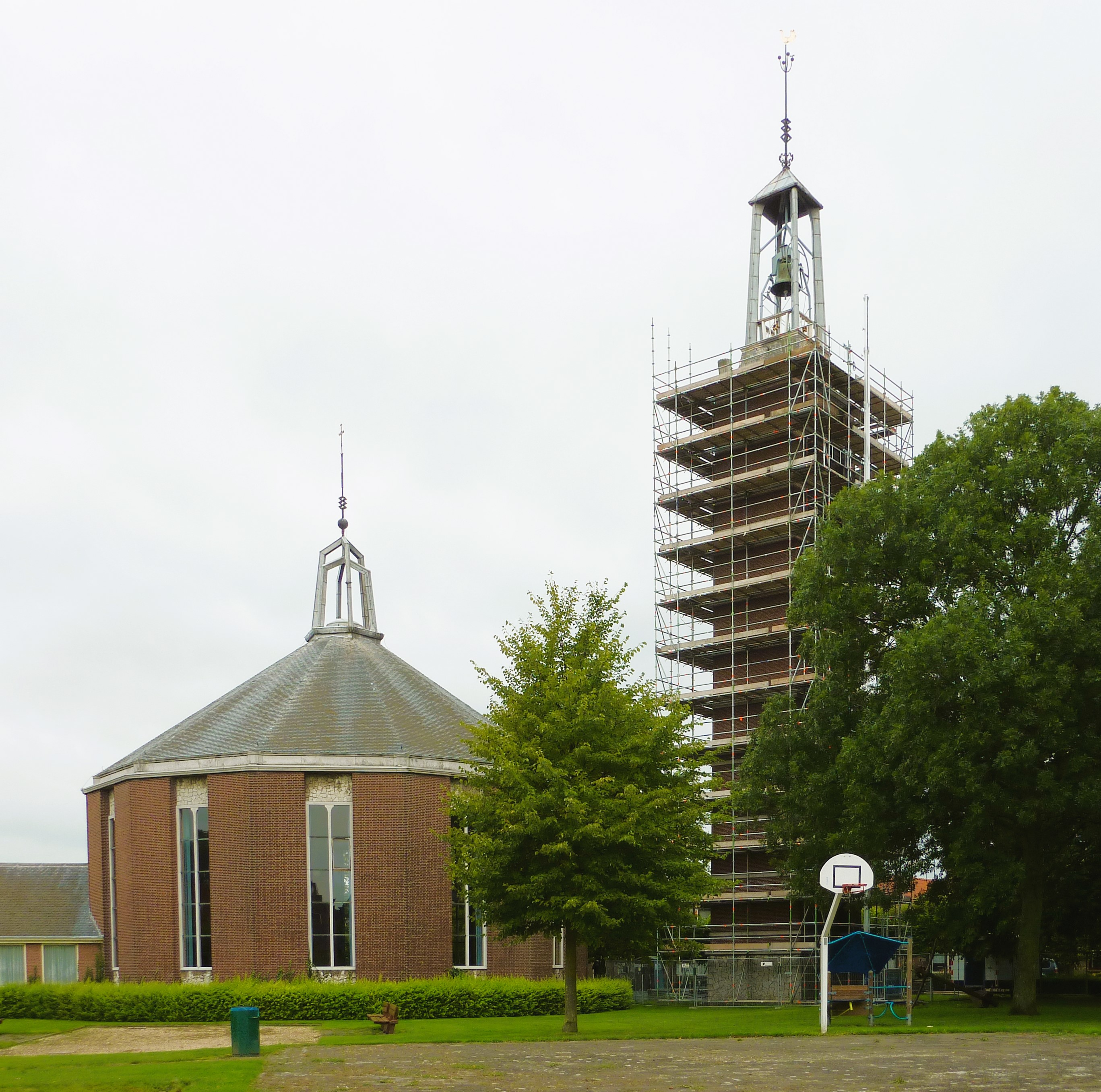 Ouwerkerk, new Geertruidkerk